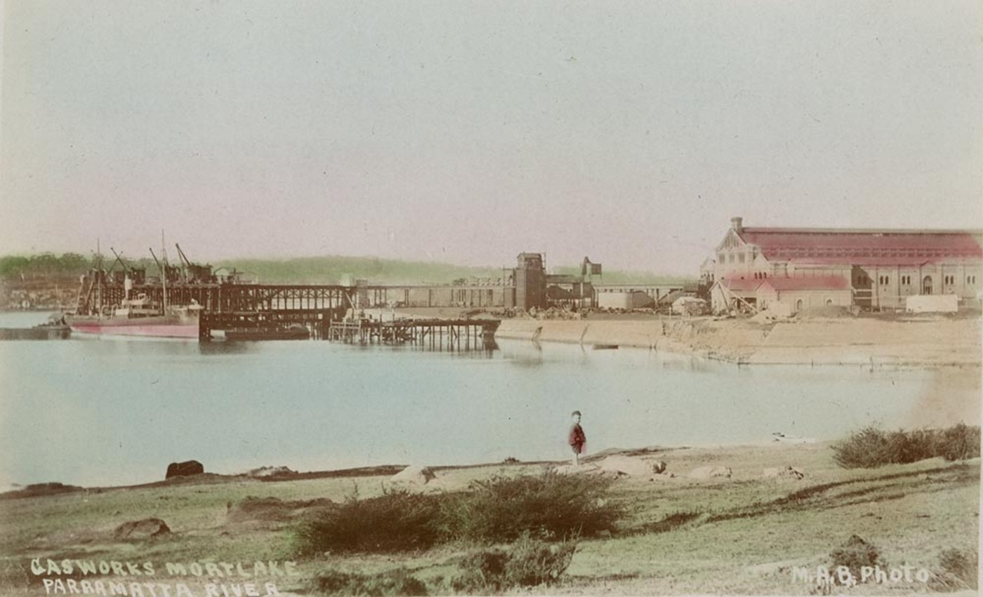 Gasworks, Mortlake, Parramatta River